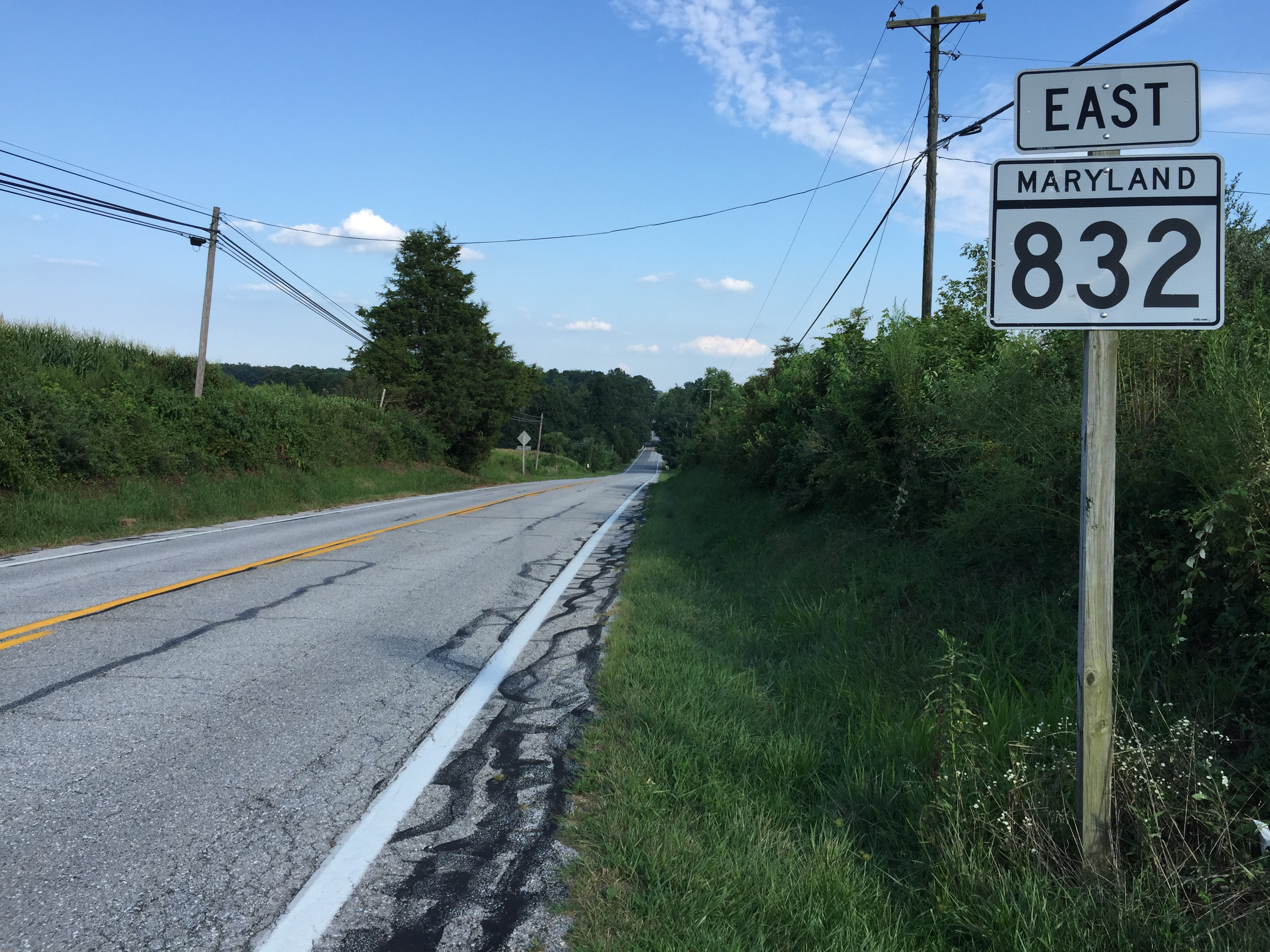 View east along Maryland State Route 832 (Old Taneytown Road) at Feeser Road in Stumptown, Carroll County, Maryland